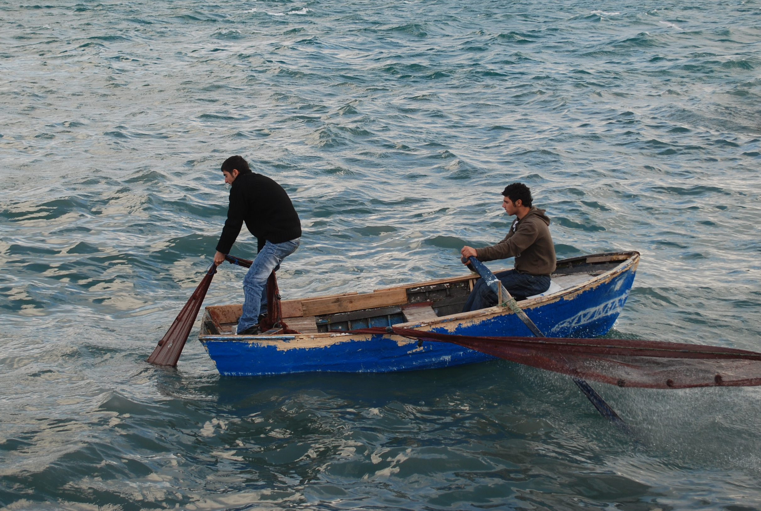 Small fishingboat in Sarıyer, Bosphorus.